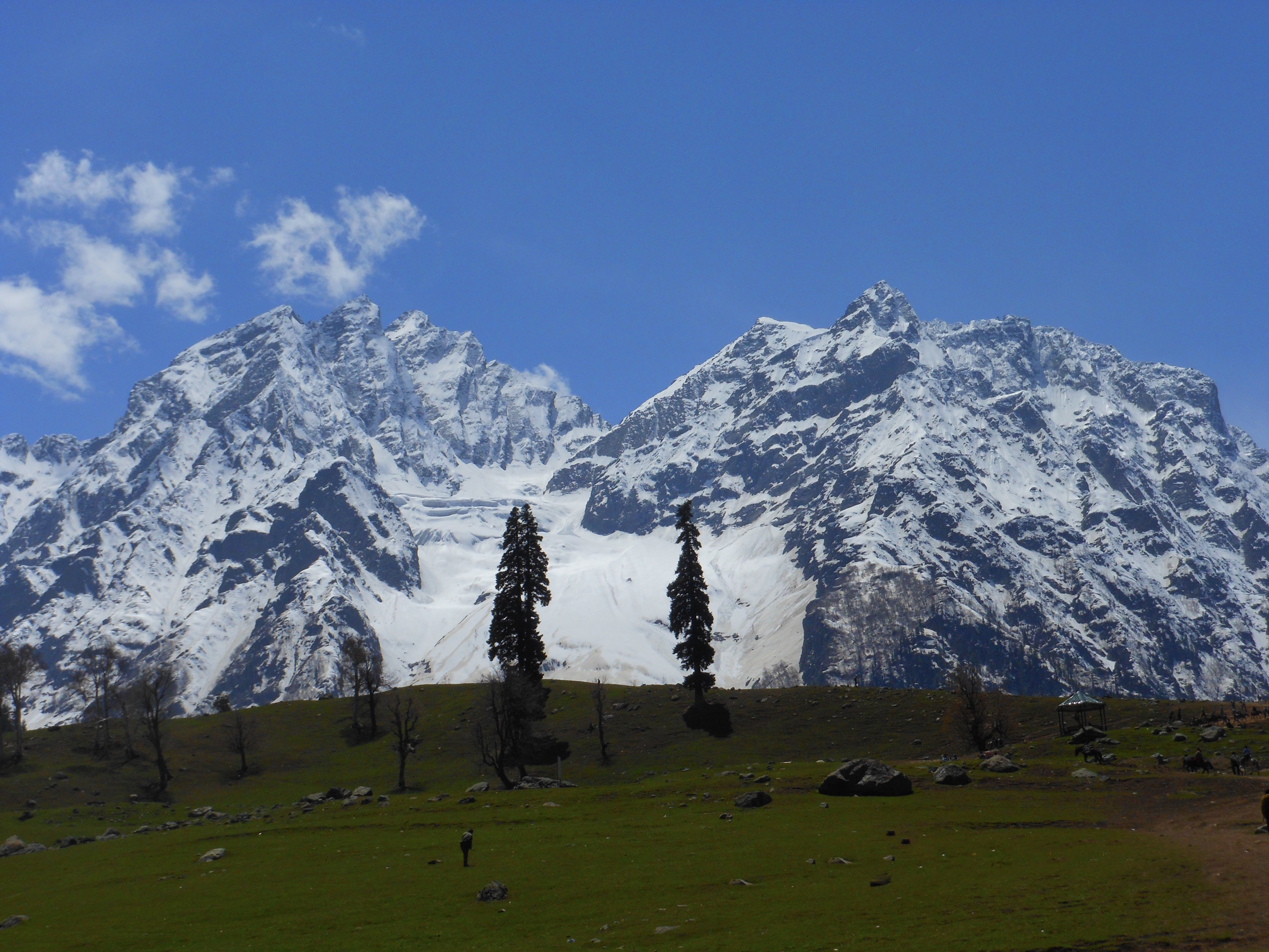 Ice Covered mountain view from Sonmarg Valley